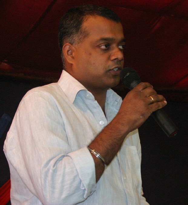 Well known Indian film director - Gautham menon